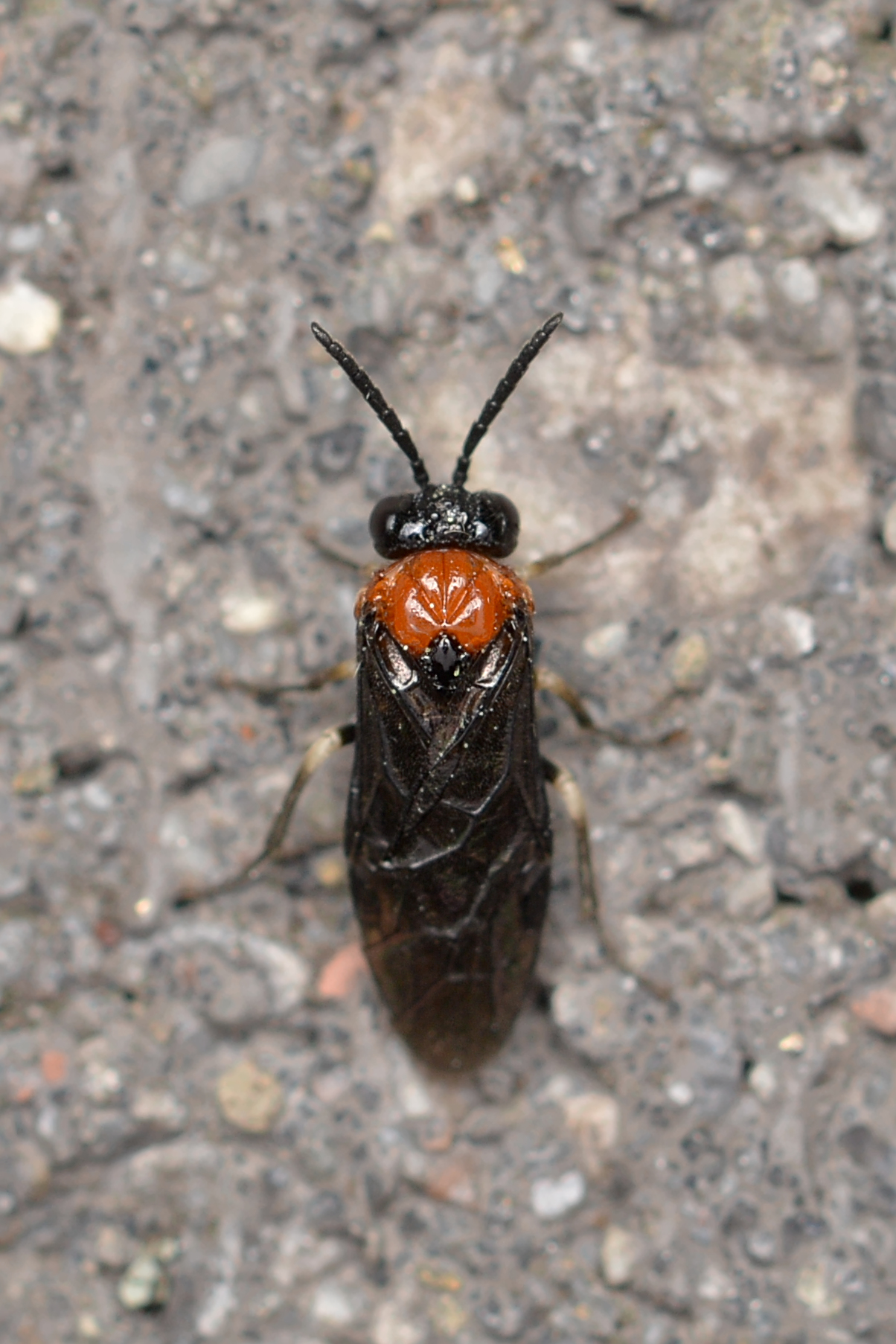 Eutomostethus ephippium in Guelph, Ontario, Canada.